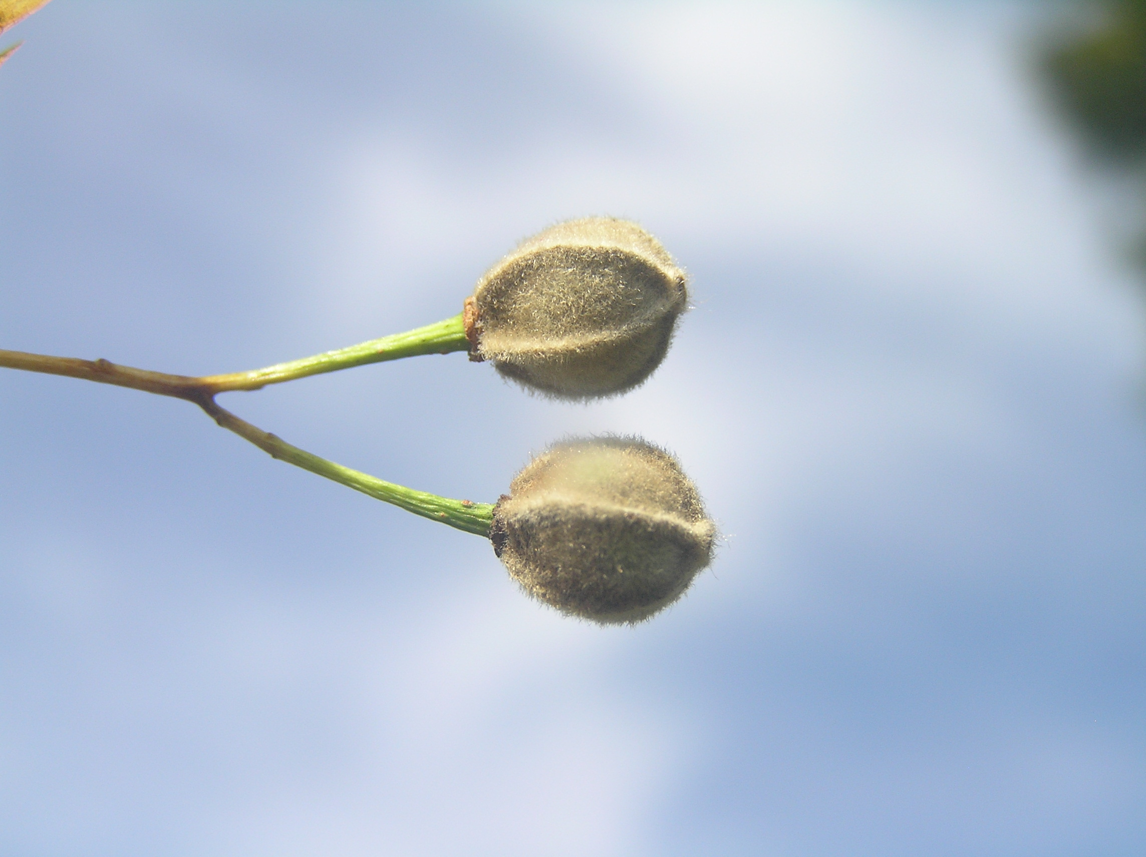 Vejdova lípa, Pastviny, Czech Republic